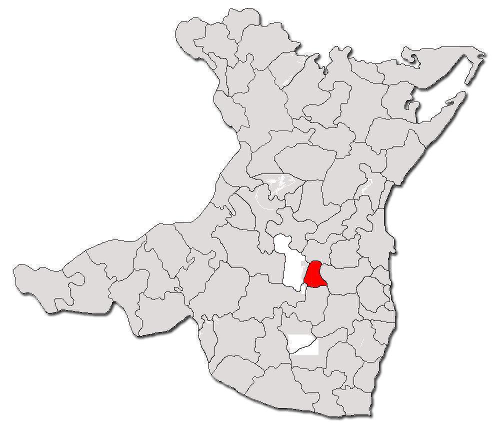 Contour map of commune Baraganu